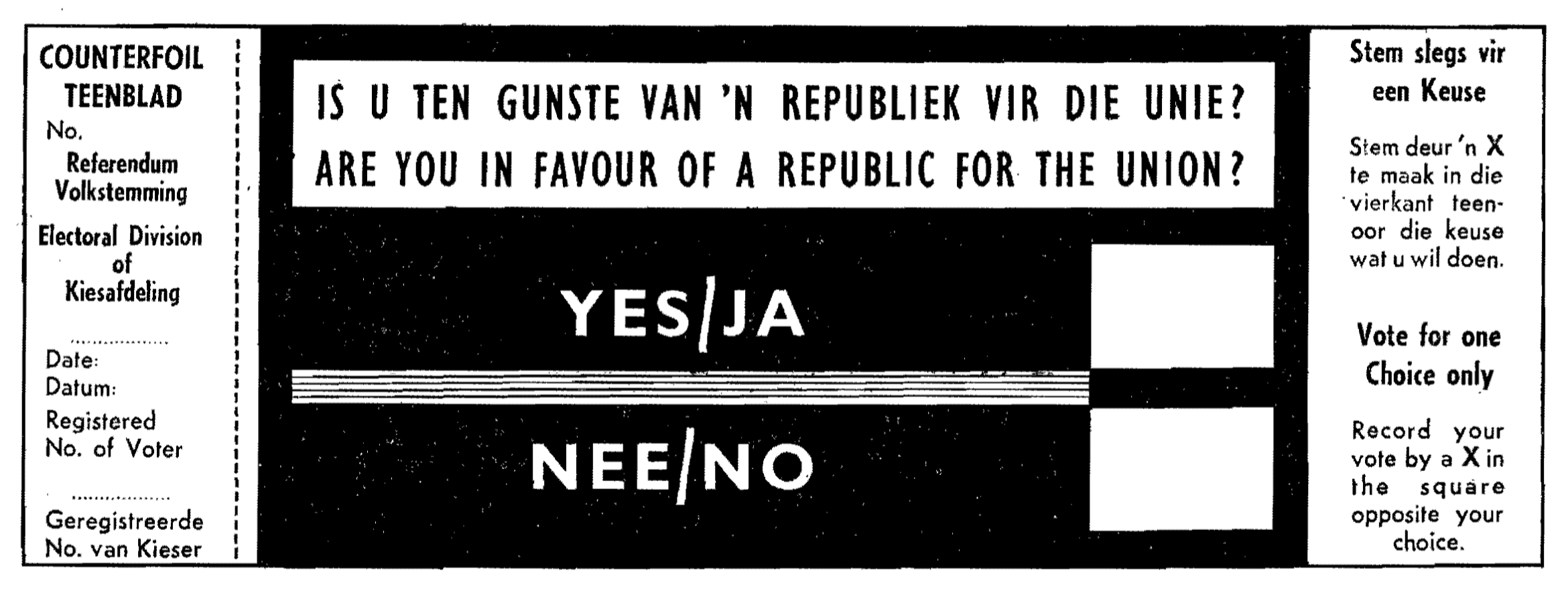 The ballot paper used in the South African republic referendum, 1960, as published as part of the Referendum Act, 1960 in the Government Gazette.